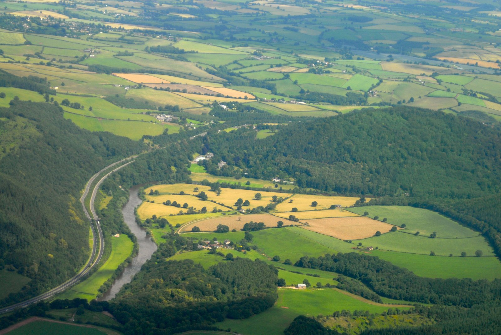 Aerial view of Wye valley at Hadnock